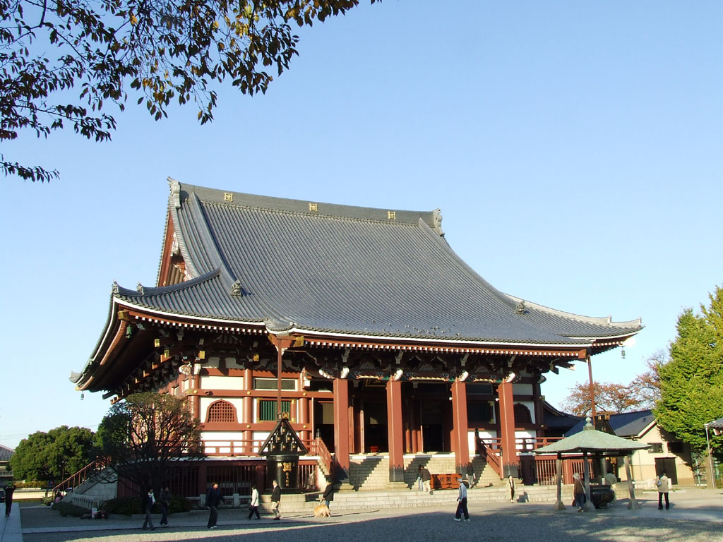 Ikegami Honmon-ji in Ota-ku, Tokyo, Japan